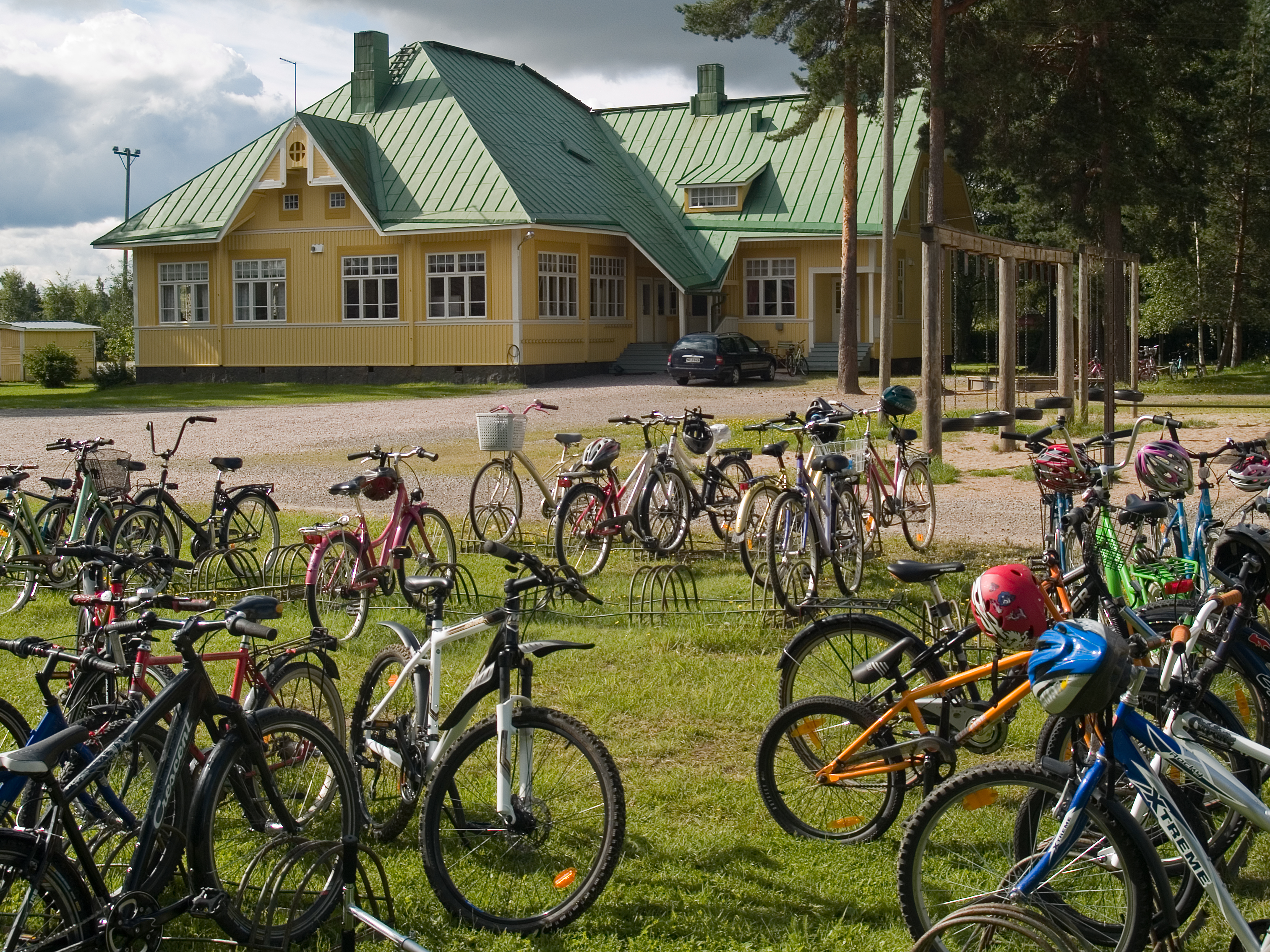 Elementary school in Koskenkorva, Ilmajoki, Finland. Designed by Valle Antila, completed 1913, newer stone building (see image Koskenkorvan koulu 1) completed 1950.